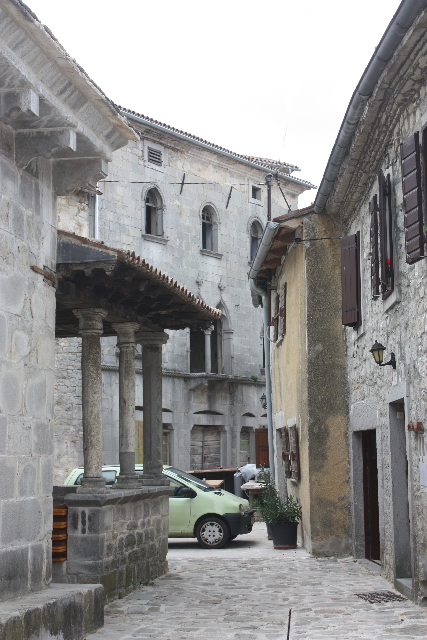 Gračišće, view to a Venetian palace